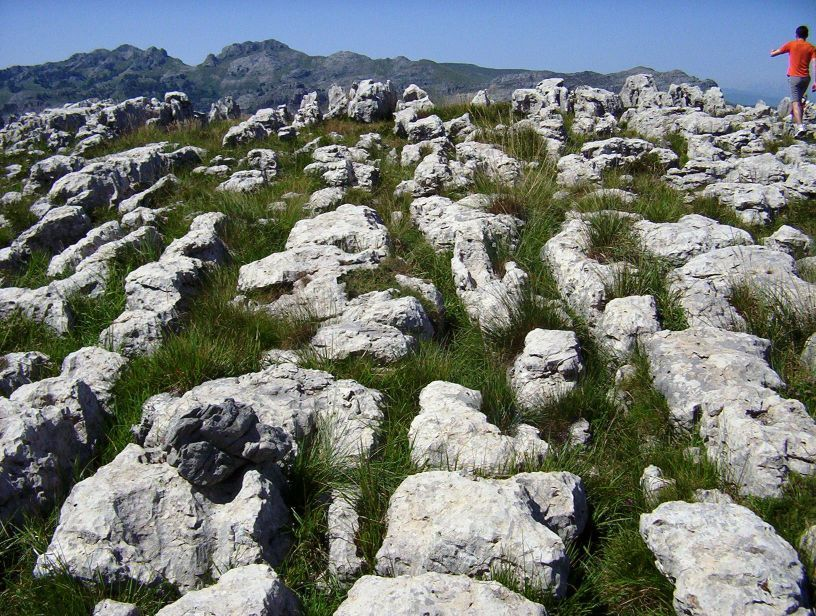 Limestone Pavement—A kind of rock, very easily carved by water. Limestone Pavement is the surface feature with ridges 'clints' and gaps 'grikes'.